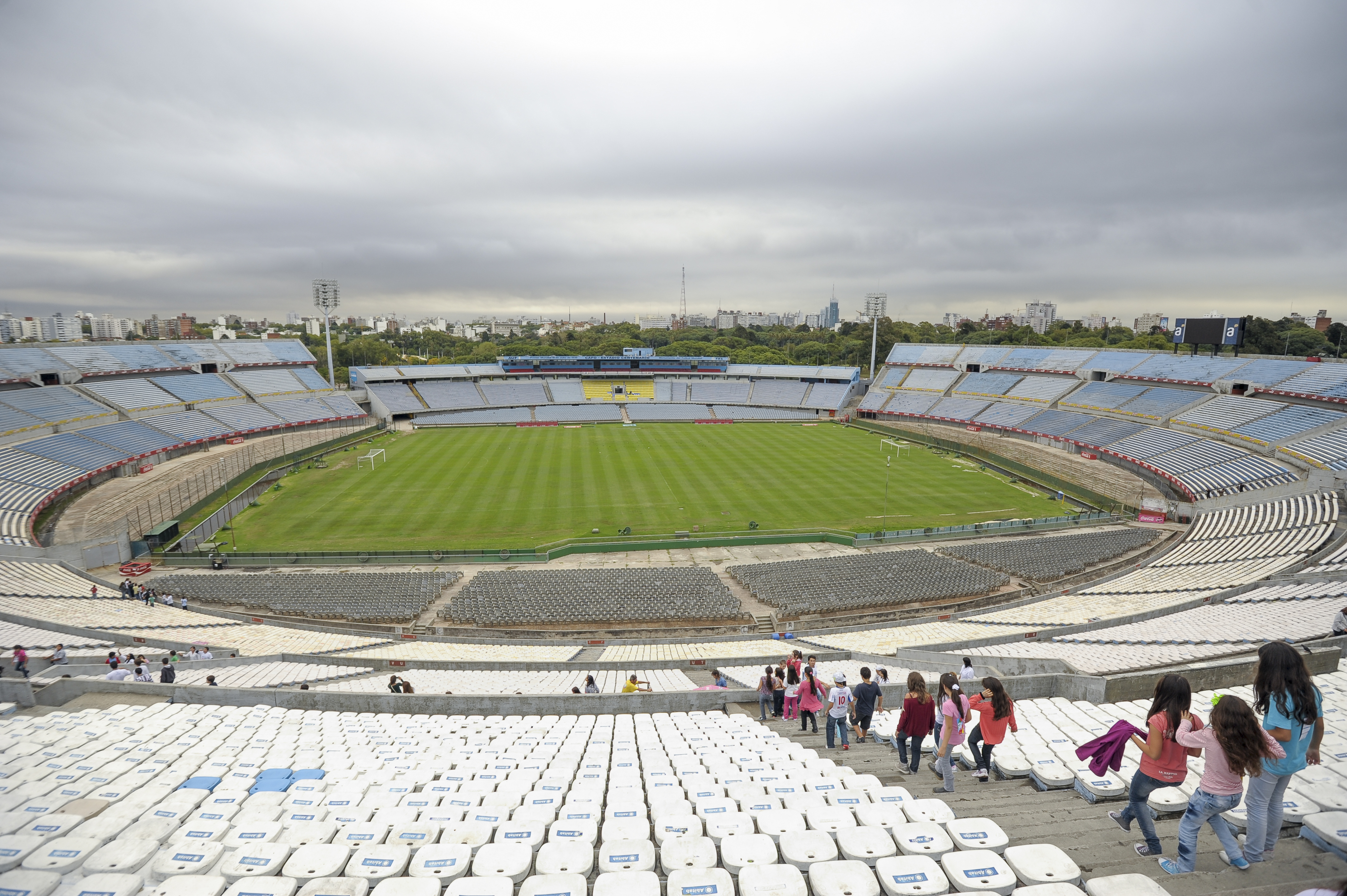 On April 3rd 2011,the Opening Ceremony of the XIII Year Celebrations were held in Uruguay. The event was part of the activities commemorating the Bicentennial of Uruguay, which took place during that year. A ceremony that took place in Montevideo and was attended by more than 500 children from 19 schools across the country. This photograph was taken by the Secretariat Santiago Barreiro of the Bicentennial Commission, which is made ​​up of authorities of all political parties, from different ministries and agencies of the Government of Uruguay.